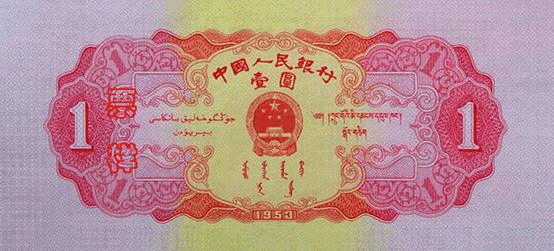 Back of second series 1 yuan renminbi (version 1)